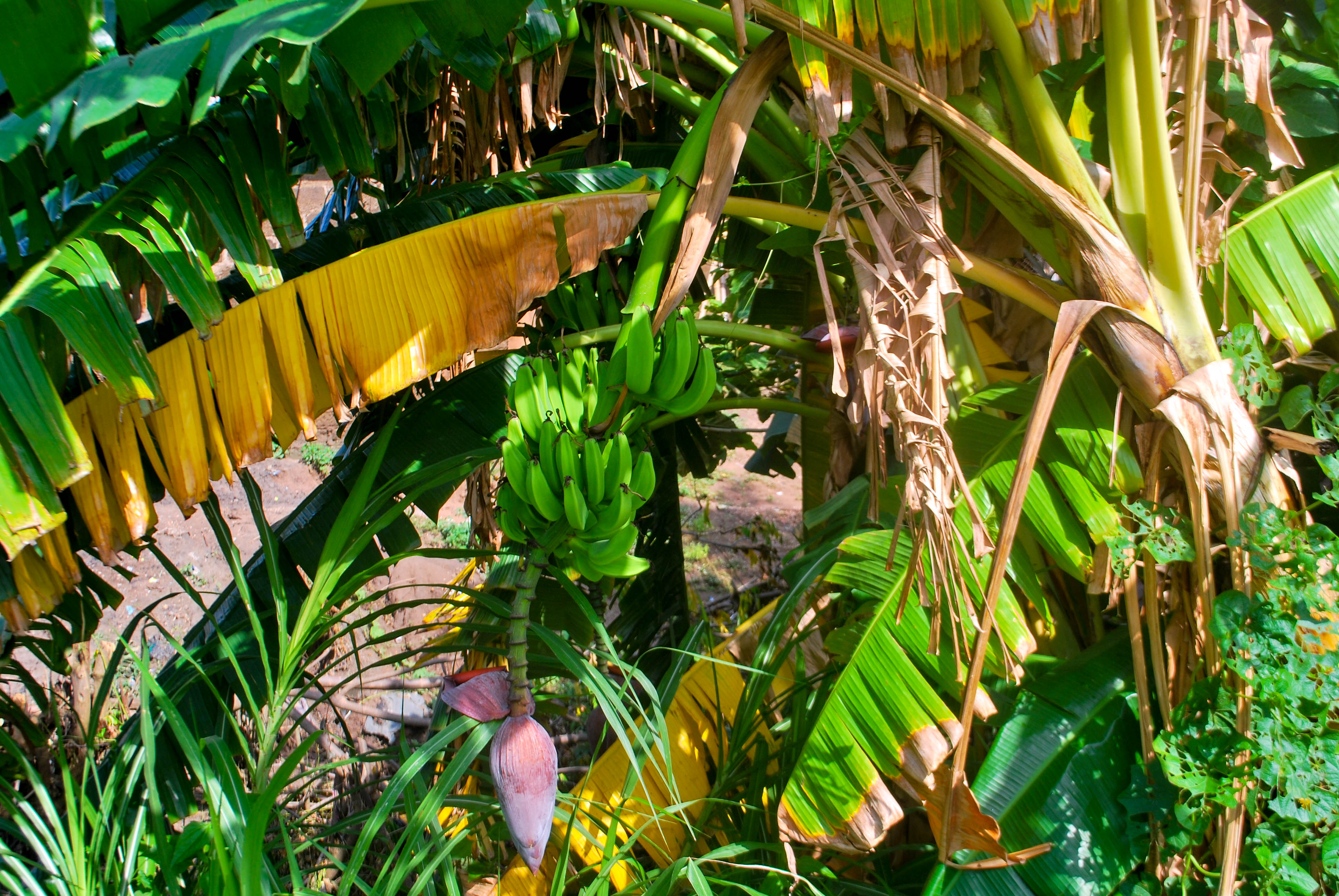 banana is an edible fruit – botanically a berry – produced by several kinds of large herbaceous flowering plants in the genus Musa. In some countries, bananas used for cooking may be called plantains, distinguishing them from dessert bananas.